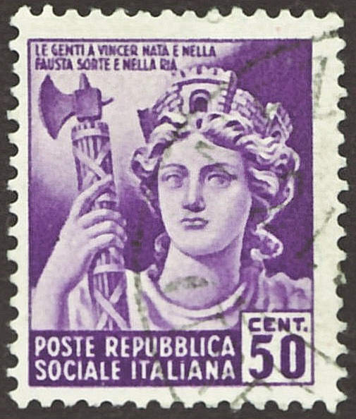 Stamp of the Italian Social Republic; 1944; commemorative stamp of the issue "Destroyed buildings and monuments - 2nd emission"; drawing of the head of a (destroyed) statue of the "Italia turrita" with a Fascio as personalized symbol figure of the Fascist state; two-lines inscription in the upper area: "LA GENTI A VINCAR NATA E NELLA / FAUSTA SORTE E NELLA RIA" (= Italian for "The people (now) is broken, but born and unified in the destiny for better or for worse" (trial of translation)); stamp postmarked Stamp: Michel: No. 657Y; Yvert & Tellier: IT-RSI No. 36; Scott: IT-RSI No. 27 Color: purple to violet Watermark: none (= type "Y") Nominal value: 50 Cent. (Centesimi) Postage validity: from 12 August 1944 until 31 December 1945 date QS:P,+1944-00-00T00:00:00Z/8,P580,+1944-08-12T00:00:00Z/11,P582,+1945-12-31T00:00:00Z/11 Stamp picture size (printed area): 17.0 x 21.0 mm